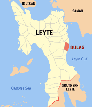 Map of Leyte showing the location of Dulag